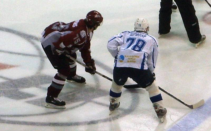 Girts Ankipans (Dinamo Riga, left) and Gabriel Spilar (Barys Astana, right), 2008-12-28, KHL game Dinamo - Barys